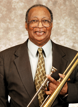 EA Jazz Master Curtis Fuller, one of the artists featured in the NEA produced radio series, Jazz Moments.